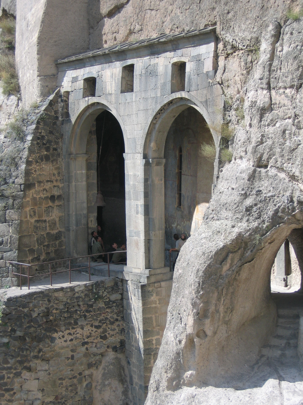 A church balcony in Vardzia, Georgia.